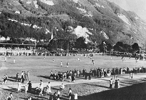 Landesportplatz in Vaduz. Liechtenstein – Blue Stars Zurich 2:6.